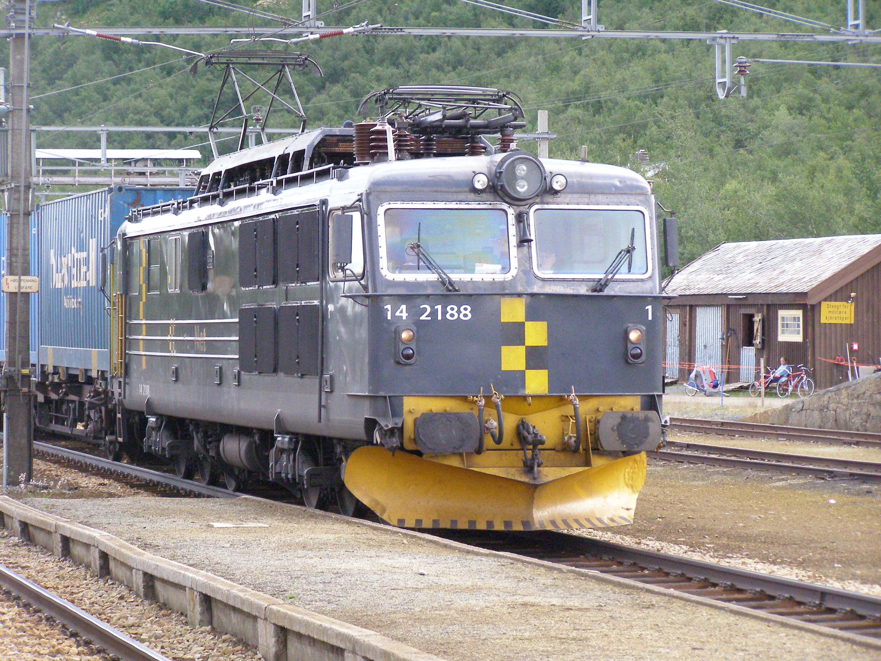 CargoNet El 14 at Hjerkinn Station, Norway